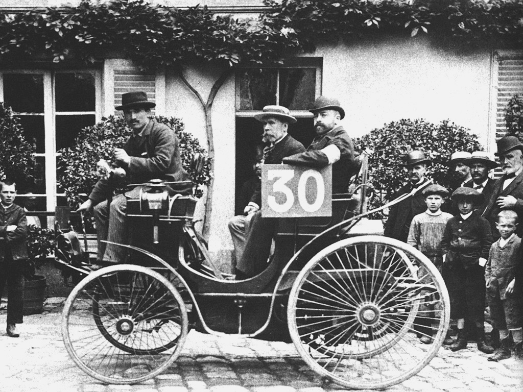 Gratien Michaux in Peugeot 3hp at 1894 Paris-Rouen race (9th place)